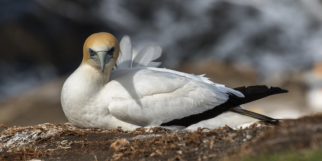 Australian Gannet - Muriwai - New Zealand_FJ0A8910